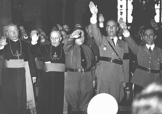 Catholic clergy and Nazi officials, including Joseph Goebbels (far right) and Wilhelm Frick (second from right), give the Nazi salute. Germany, date uncertain.